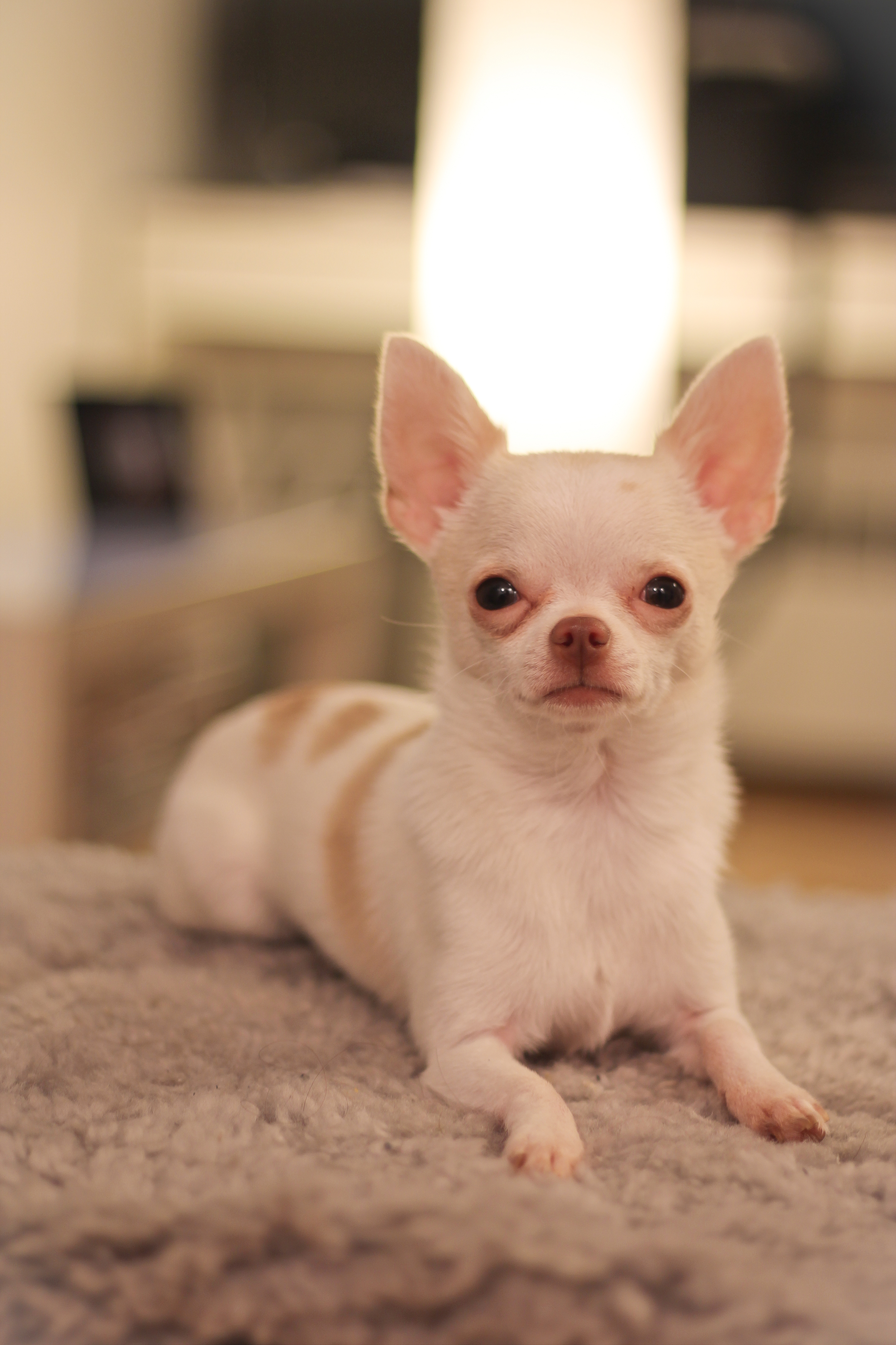 Montreal, Canadá. owner: Marine Moga, Photography: Carlos Ferreira.